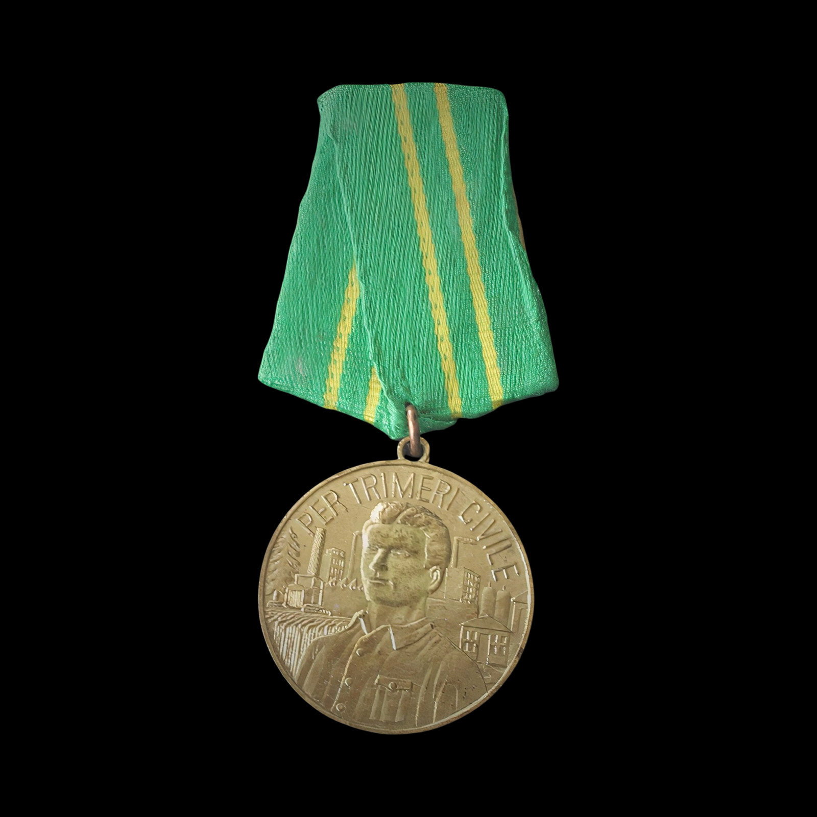 Albanian State "Order for Civil Bravery".